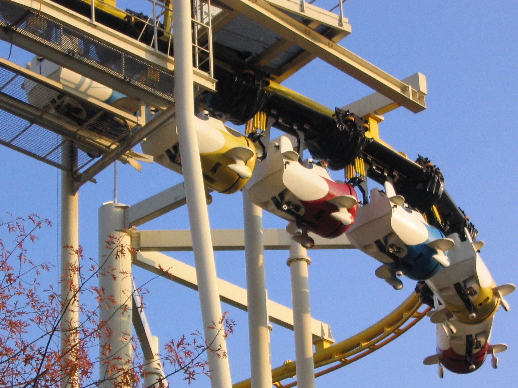 Roller coaster Air Race at Bobbejaanland